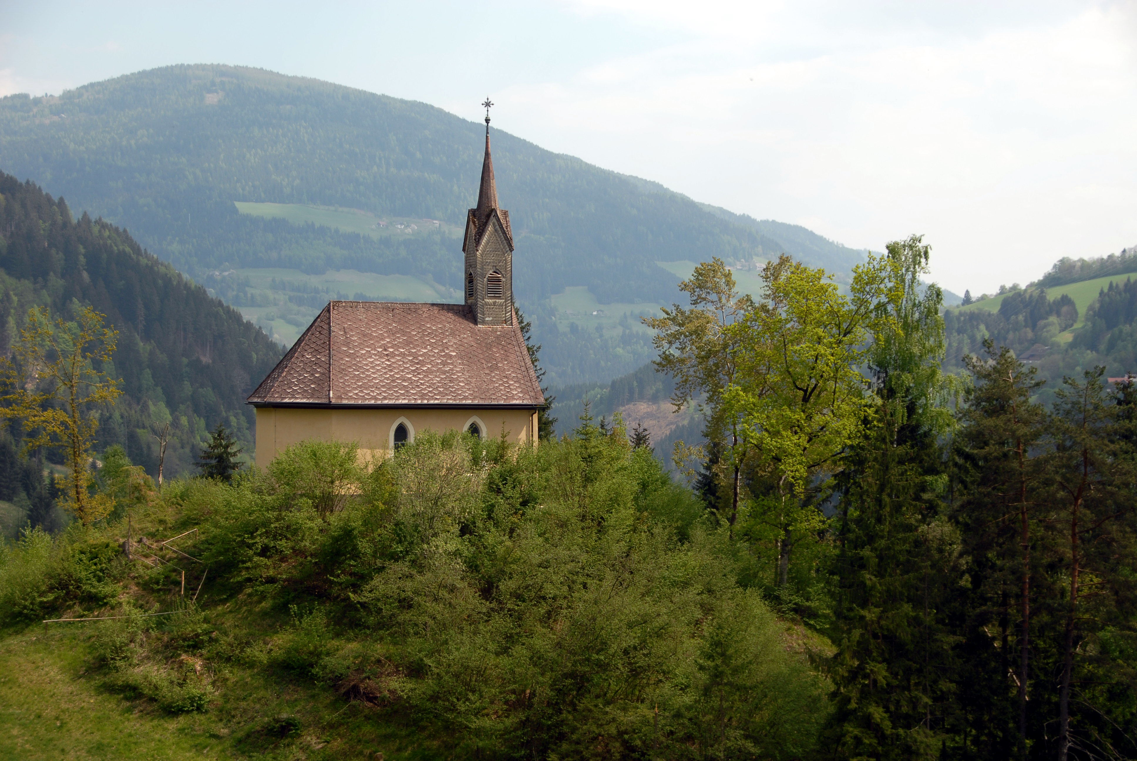 Calvary chapel in Afritz, municipality Afritz am See, district Villach Land Carinthia, Austria, EU